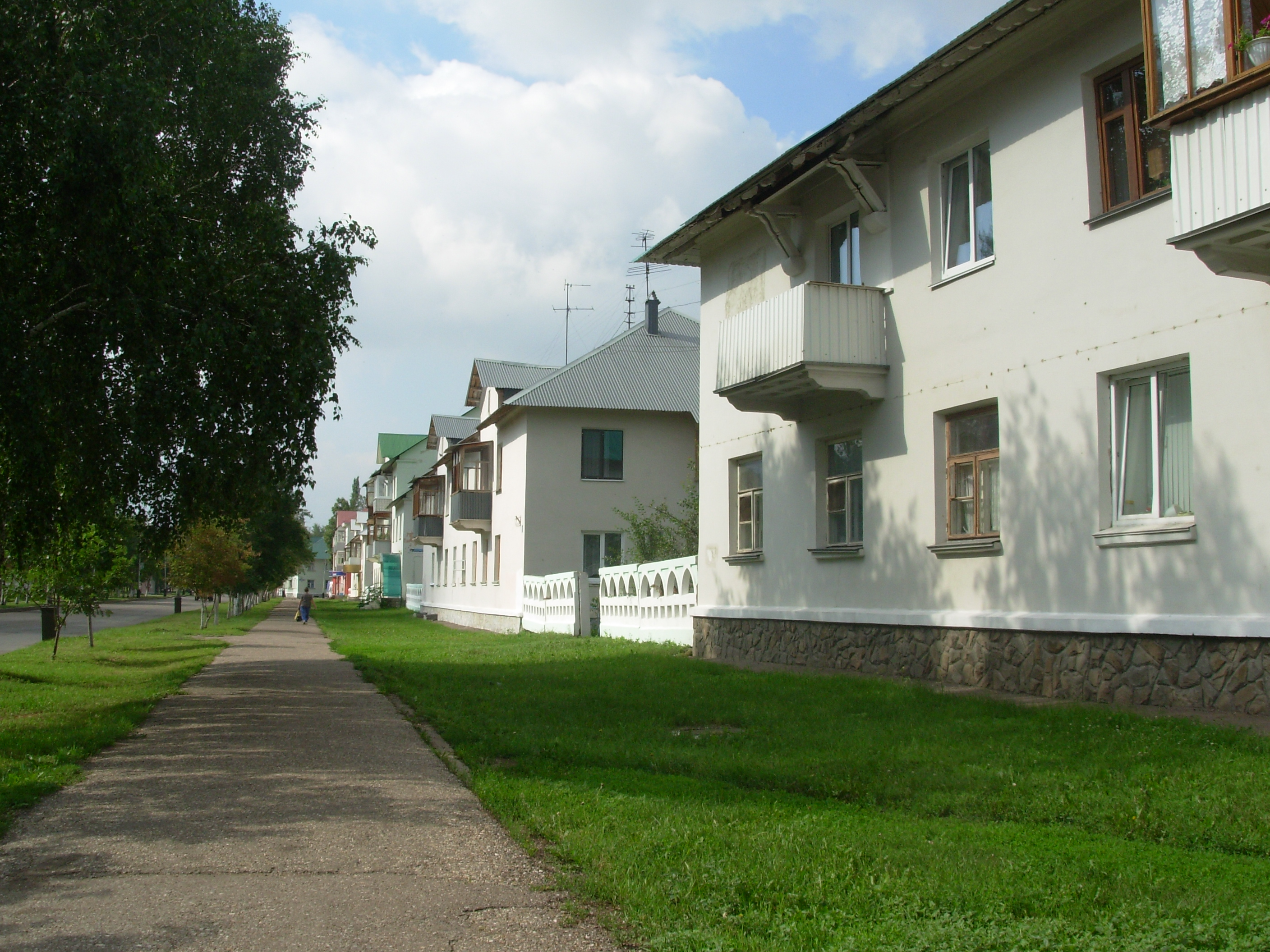 street